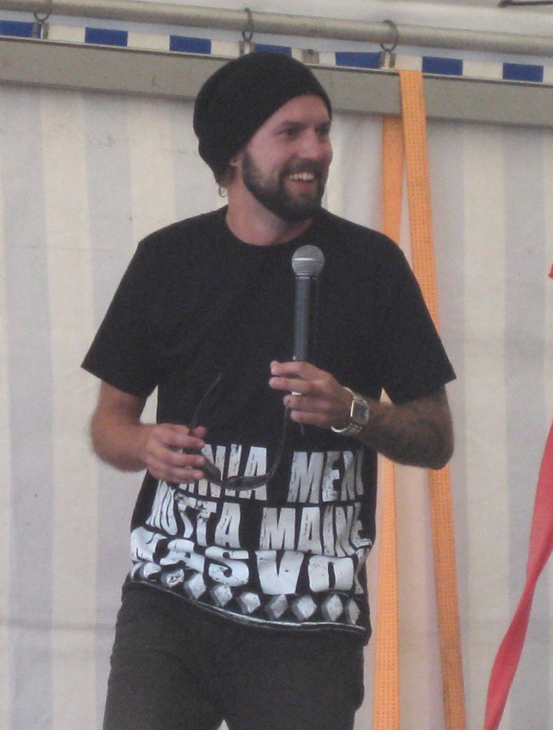 Hannu-Pekka "HP" Parviainen from The Dudesons in front of shopping mall Lantern in Roihupelto, Helsinki